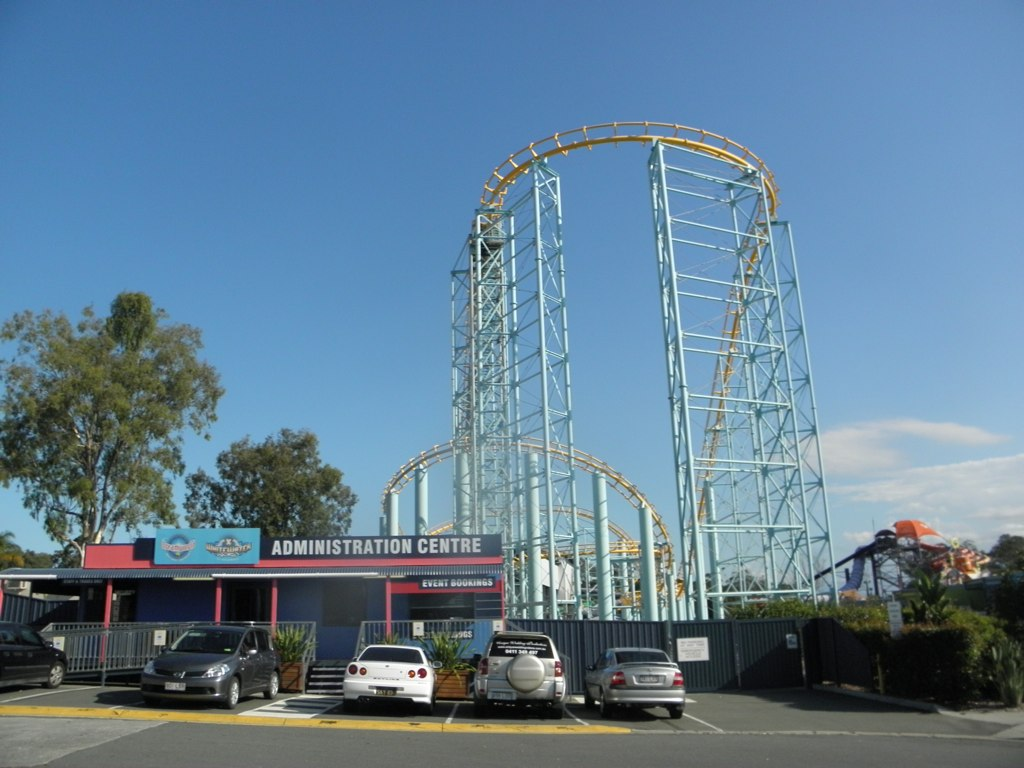 The Cyclone at Dreamworld from the carpark. The Administration Centre and Guest Bookings office can be seen in the foreground.